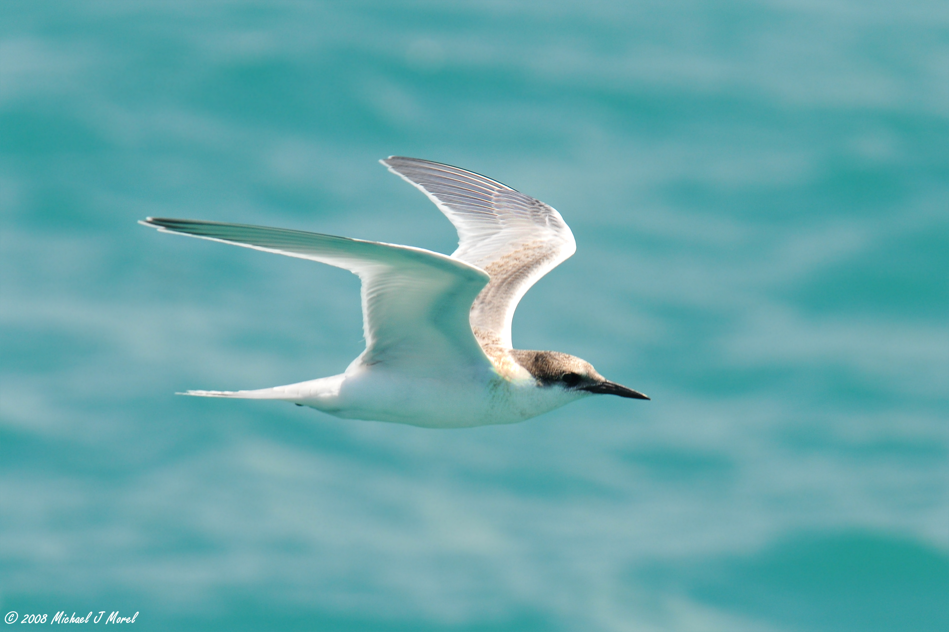 Roseate Tern Common name